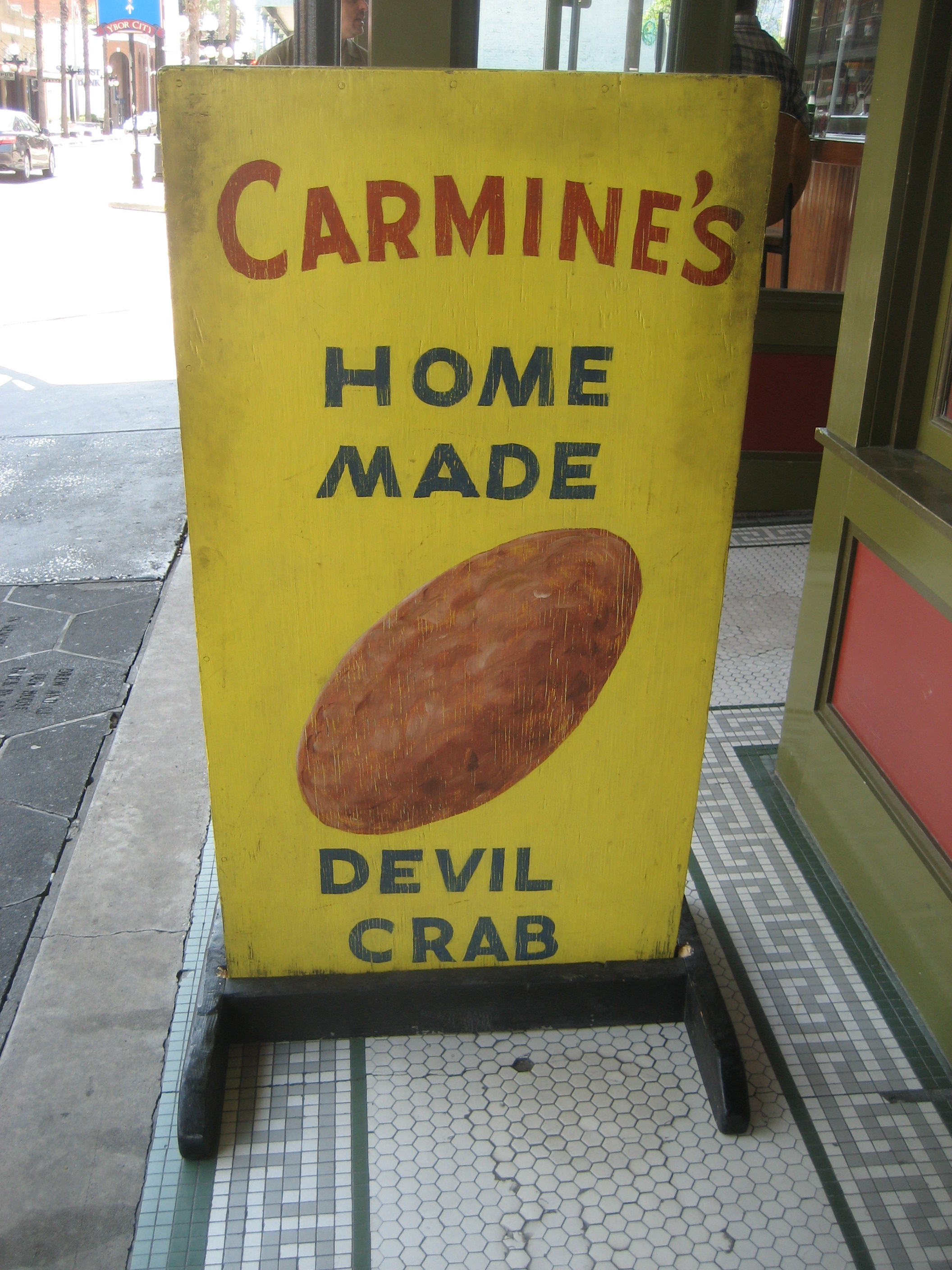 Sign on sidewalk outside restaurant on 7th Street, Ybor City section of Tampa, Florida.